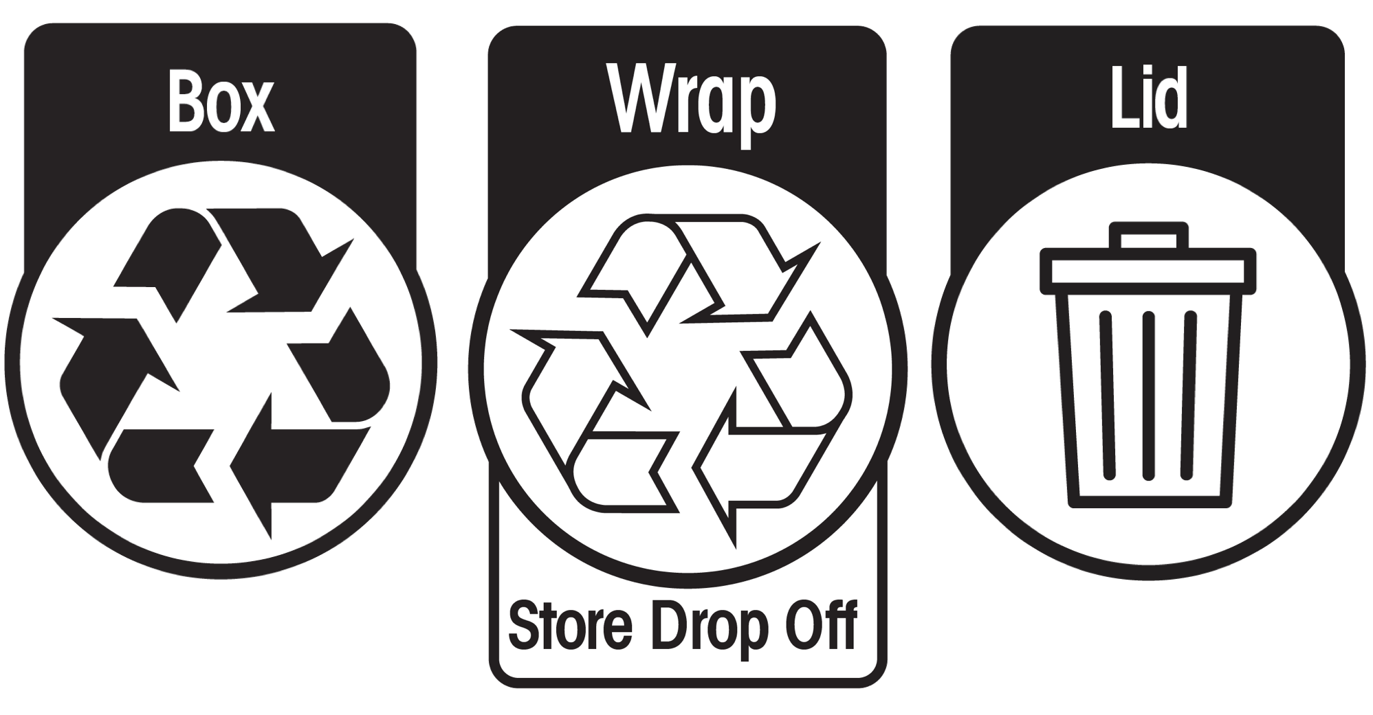 Australasian Recycling Label icons